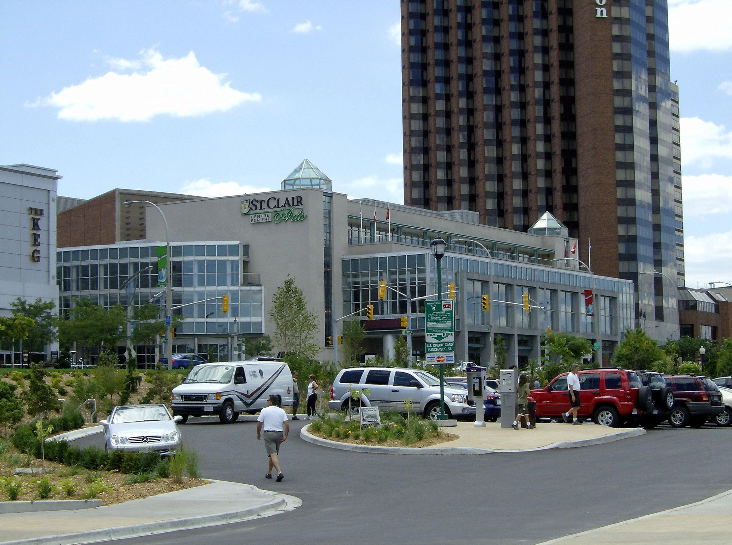 Cleary Centre along Riverside Drive now showing new ownership St. Clair College